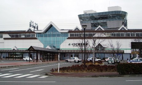 Kurikoma-Kogen Station, East Japan Railway Company